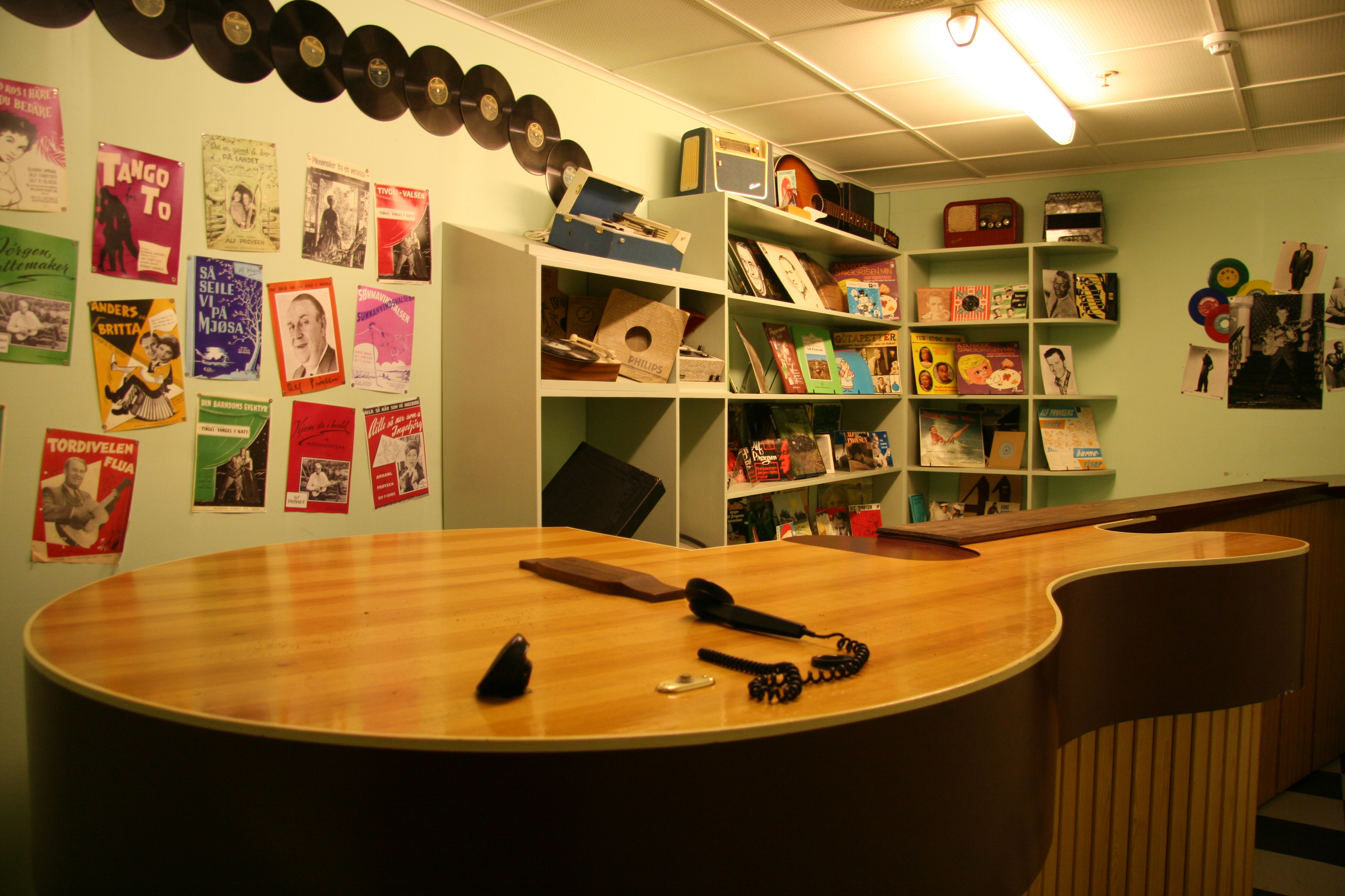 A selection of recordings by Alf Prøysen at Prøysenhuset